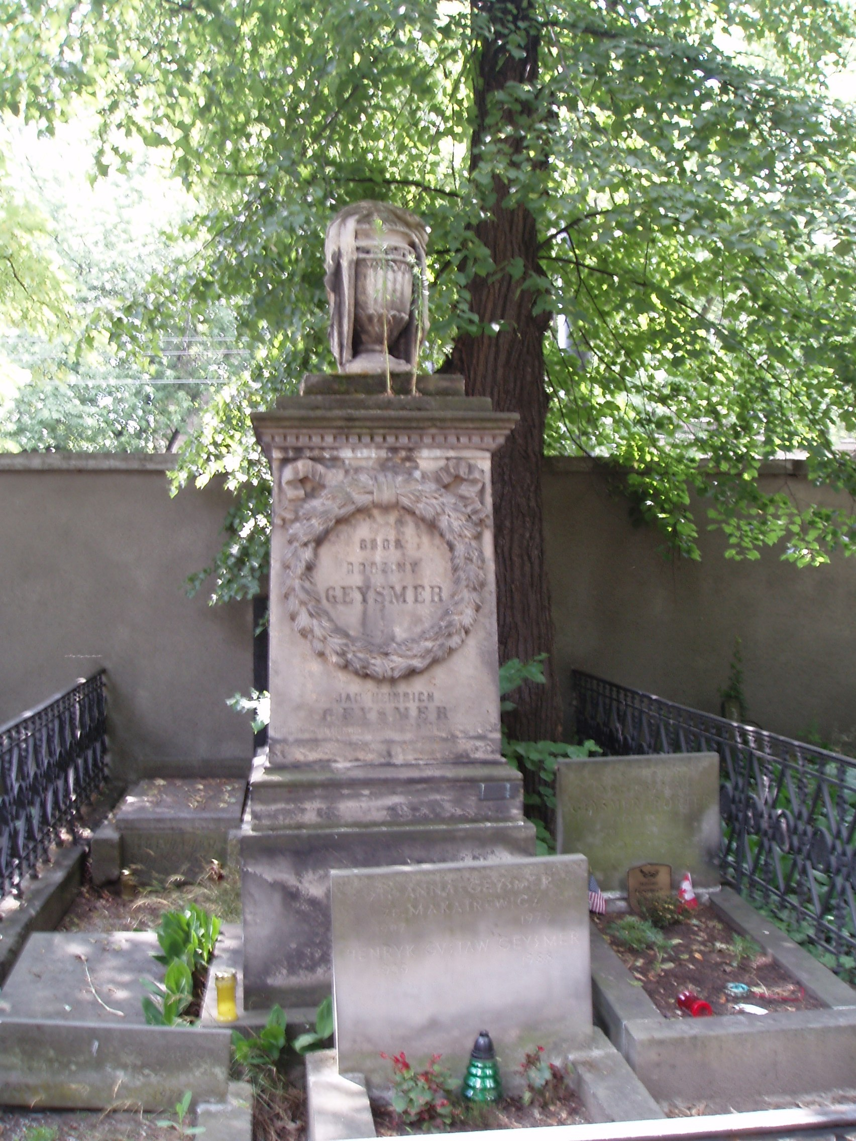 Geysmer family headstone, lutheran cemetery in Warsaw